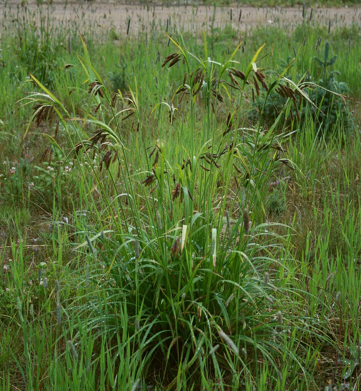 Carex mertensii, Sauergräser (Cyperaceae) - Kanada/Canada: British Columbia, Shuswap Highland, ca. 8 km ESE Sicamous, ca. 1600 m